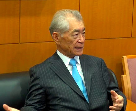 Tasuku Honjo, Deputy Director-General of the Institute for Advanced Study, Kyoto University, talked with Masahiko Shibayama, Minister of Education, Culture, Sports, Science and Technology, at the Central Government Building No.7 in Chiyoda Ward, Tōkyō Metropolis on October 11, 2018.